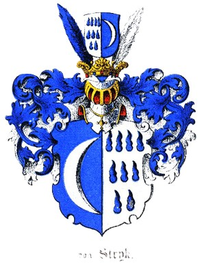 Coat of Arms of Stryk family